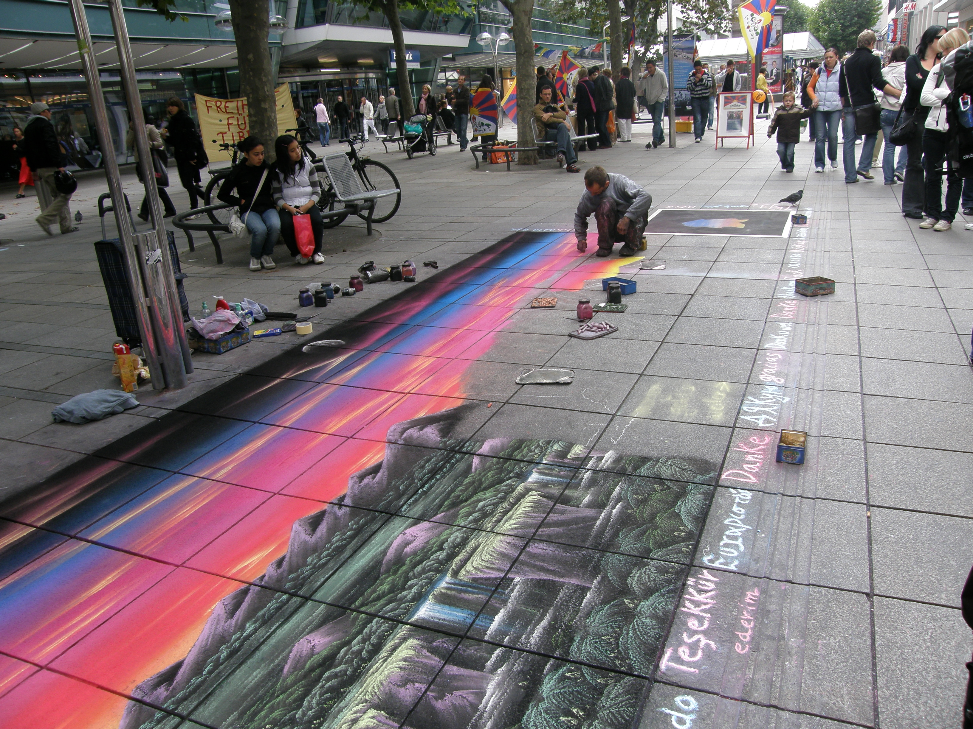 Pavement artist in the pedestrian area of Stuttgart, Germany, with the vintage unfinished picture